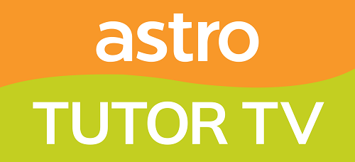 Channel logo of Astro Tutor TV